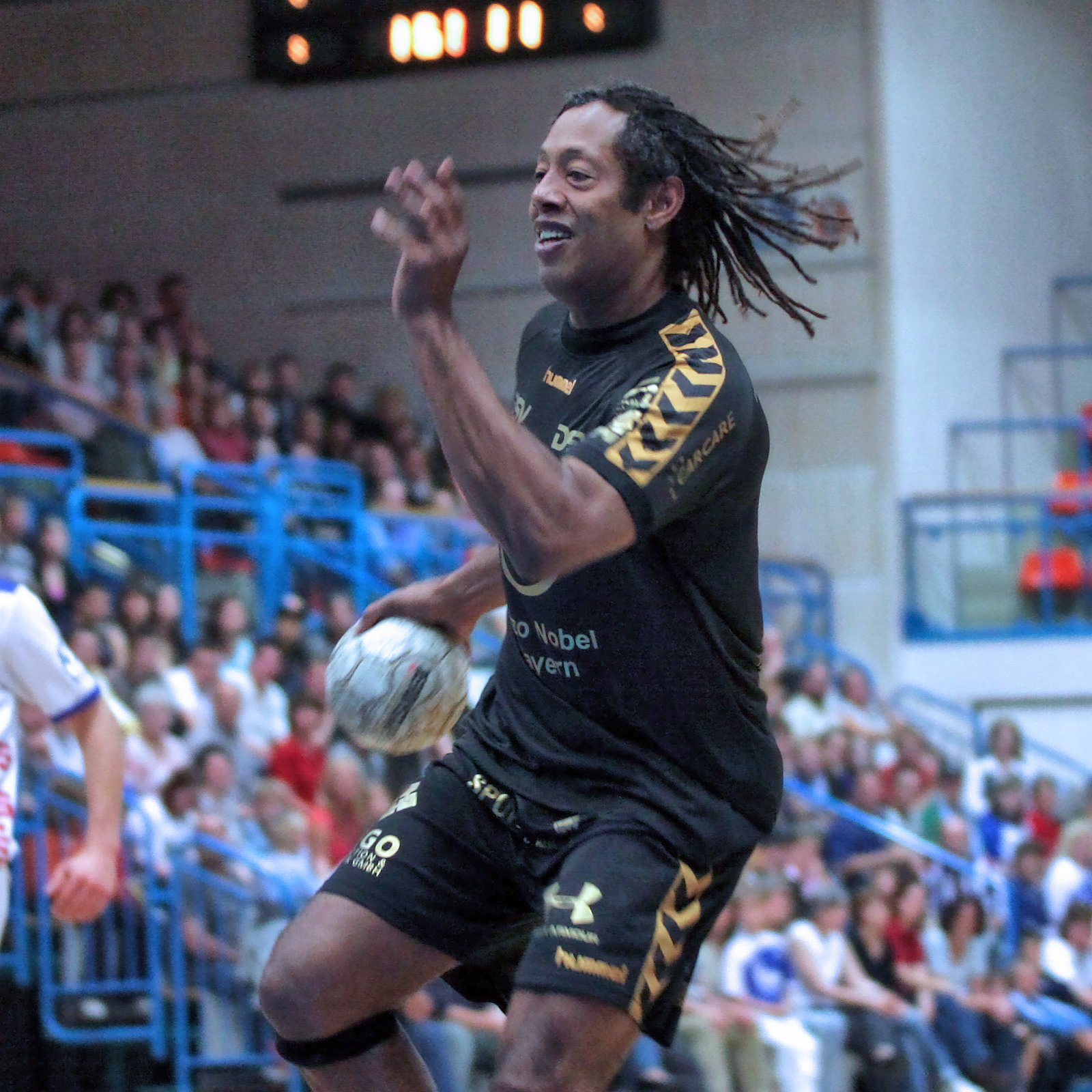 Jackson Richardson, famous French handball player.